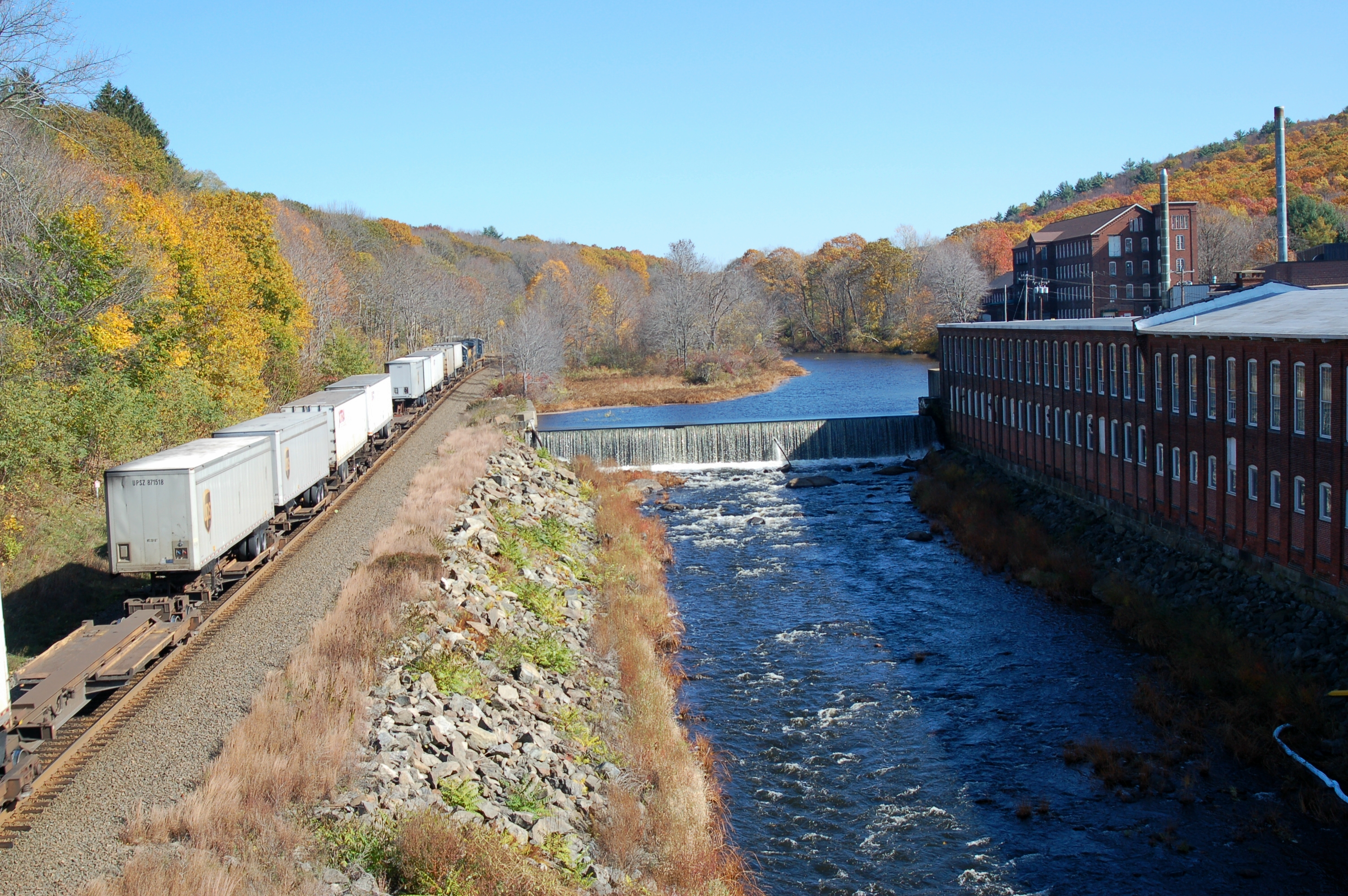 Rails and factories along the Quaboag River in Warren. Photo by Richard B. Johnson